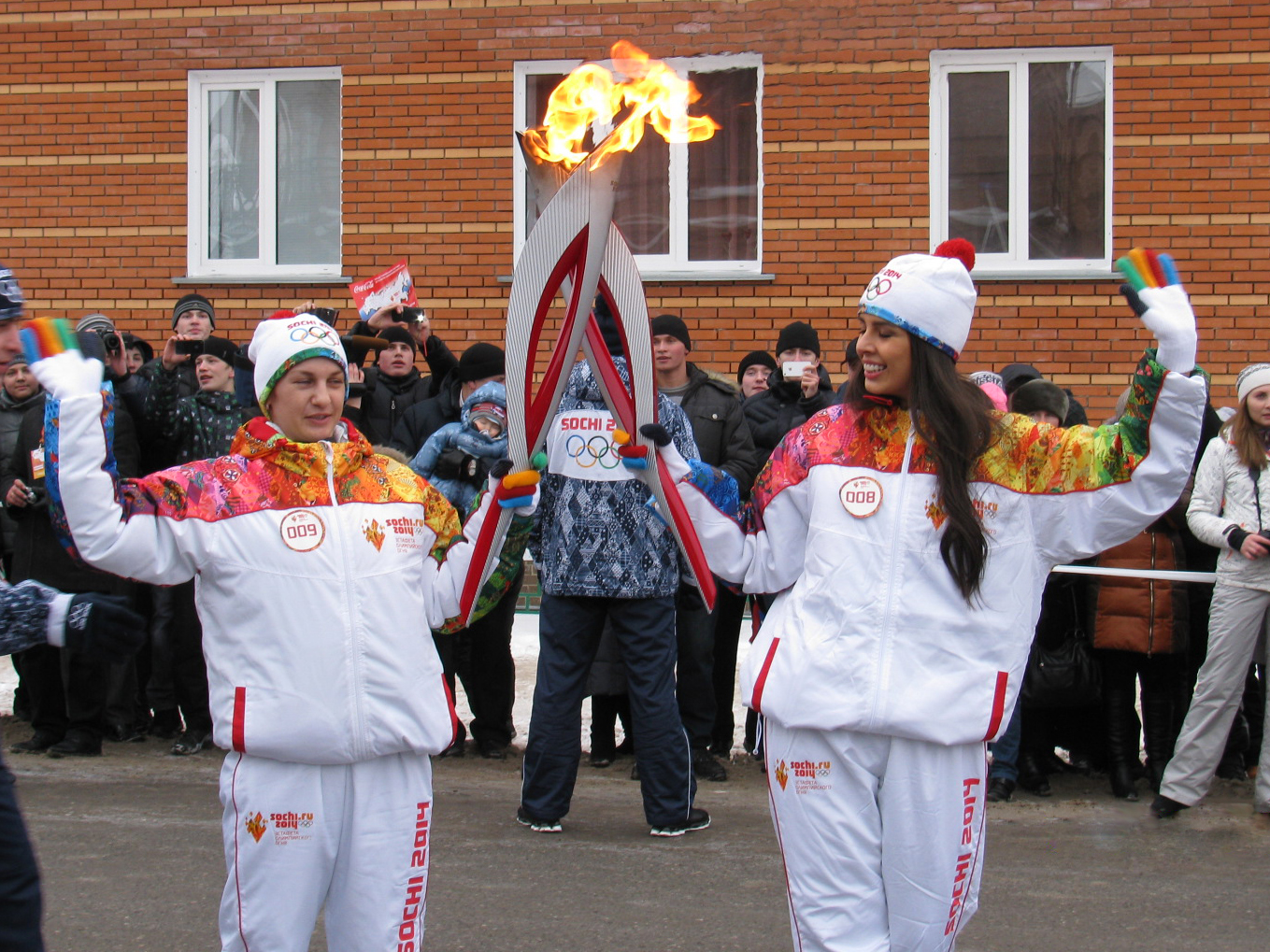 2014 Winter Olympics torch relay. Kuybyshev. Miss Russia 2013 (right)